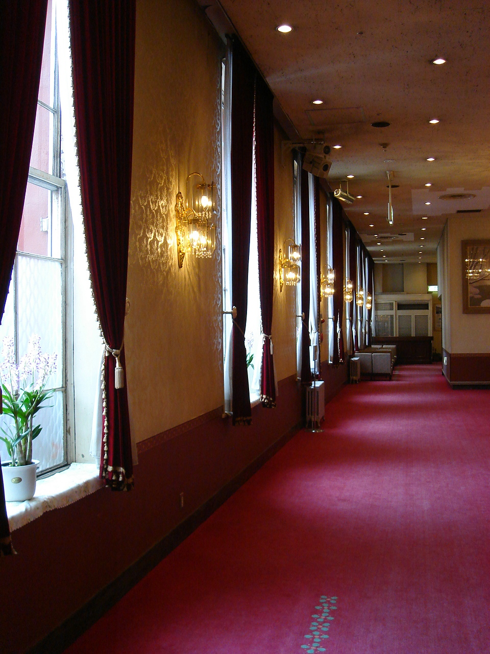 TOKYO STATION HOTEL,2F